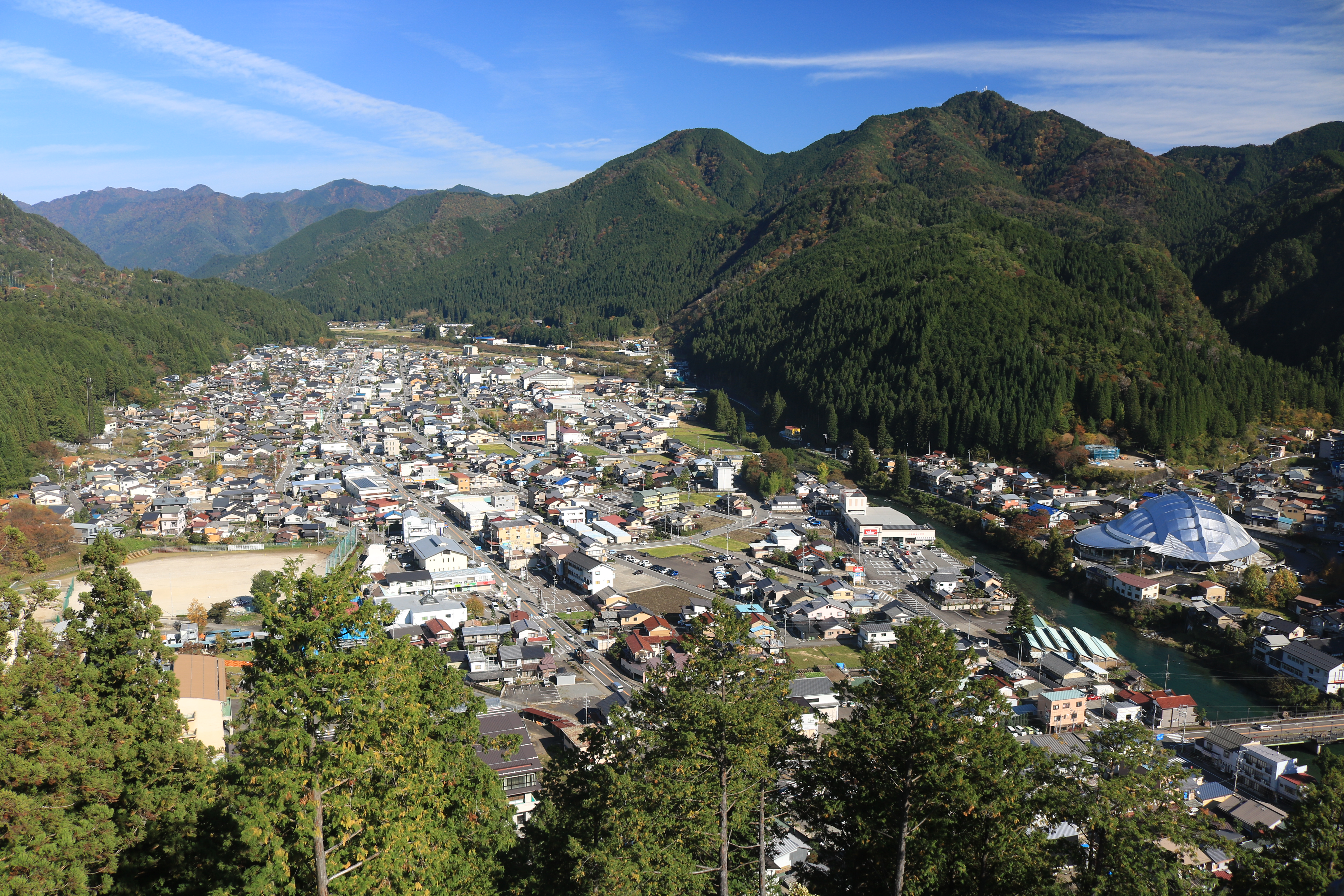 Mount Chigo and Yoshida River seen from Gujohachiman Castle in hachiman-chō, Guj, Gifu Prefecture, Japan.